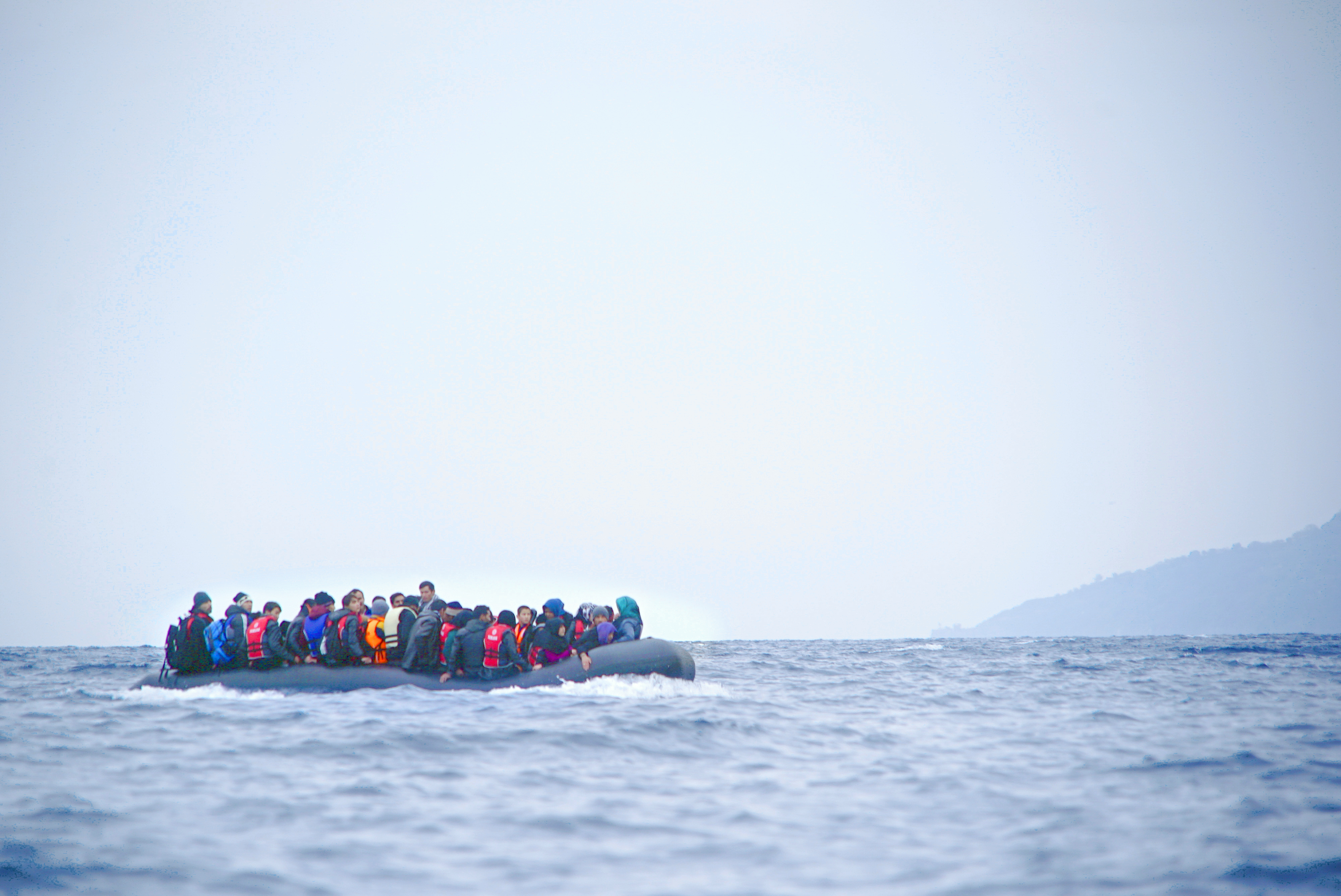 Refugees on a boat crossing the Mediterranean sea, heading from Turkish coast to the northeastern Greek island of Lesbos, 29 January 2016.